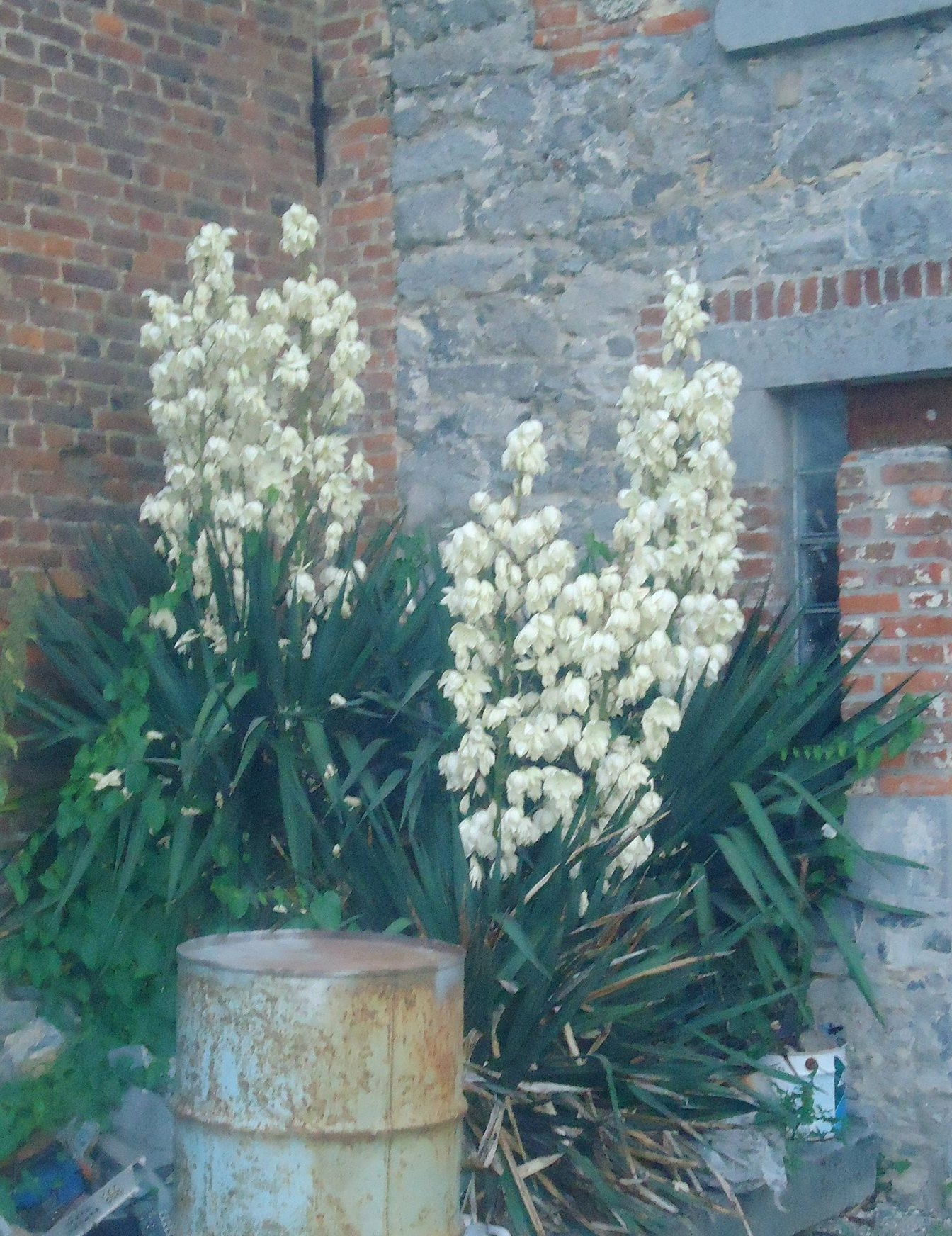 vegetation